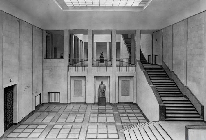 Main Hall and Stairs of the National Museum in Warsaw.